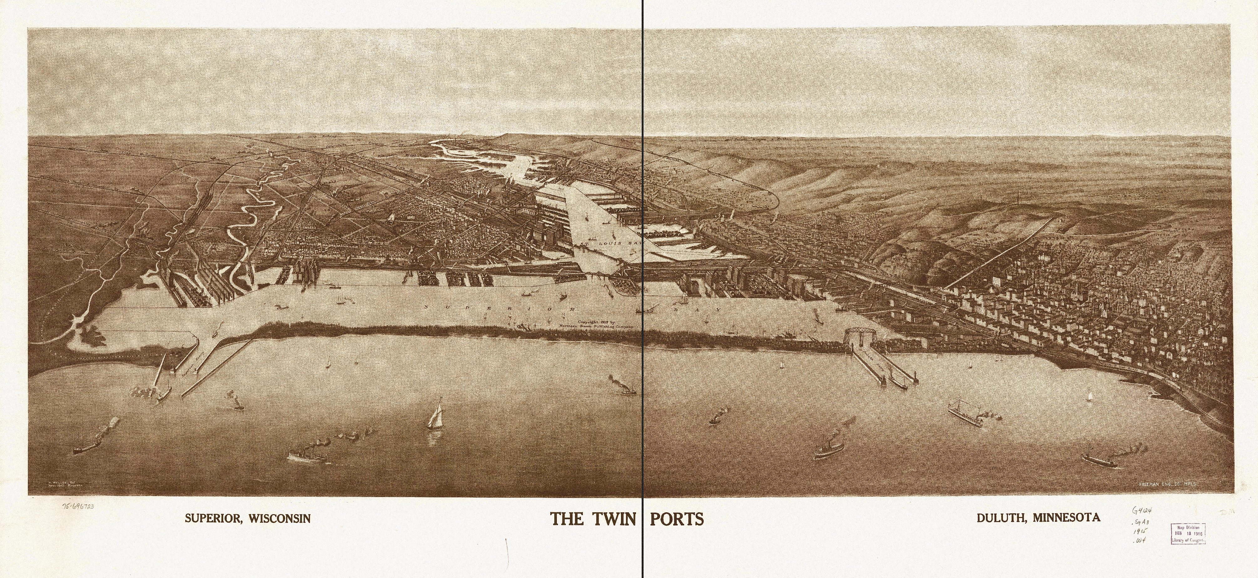 The twin ports, Superior, Wisconsin, Duluth, Minnesota. H. Wellge, del. Freeman Eng. Co.